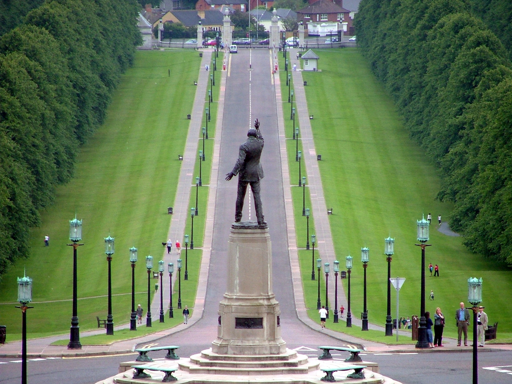 Edward Carson statue as seen from the Parliament Building porch, Northern Ireland. Feel free to use anywhere for anything!